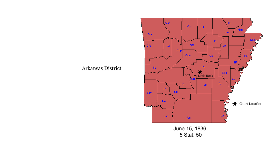 The Arkansas District in 1836.